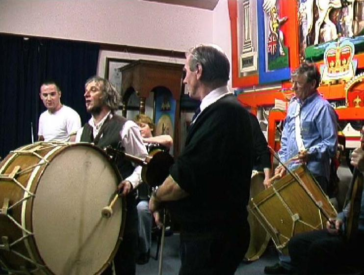 Ulster-Scots Folk Orchestra performing at Ballrashane War Memorial Orange Hall, County Antrim